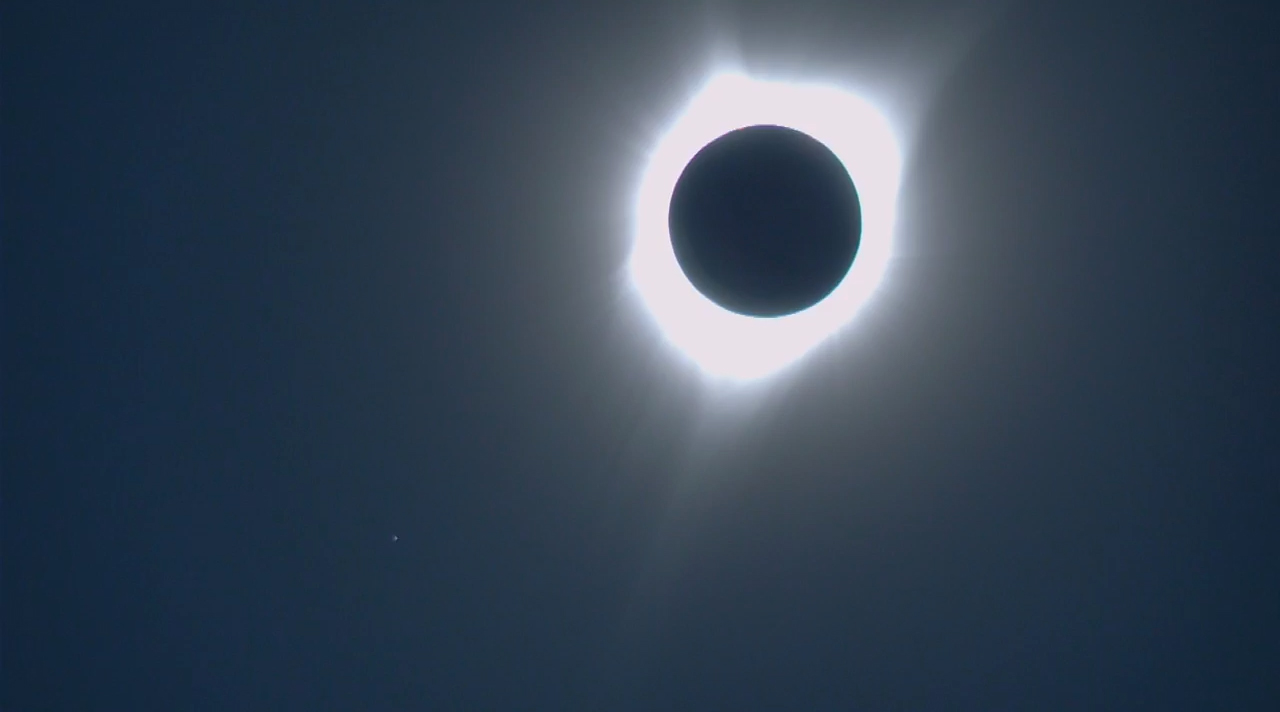 Moment of totality from Oregon DOT's Facebook live stream of the solar eclipse.